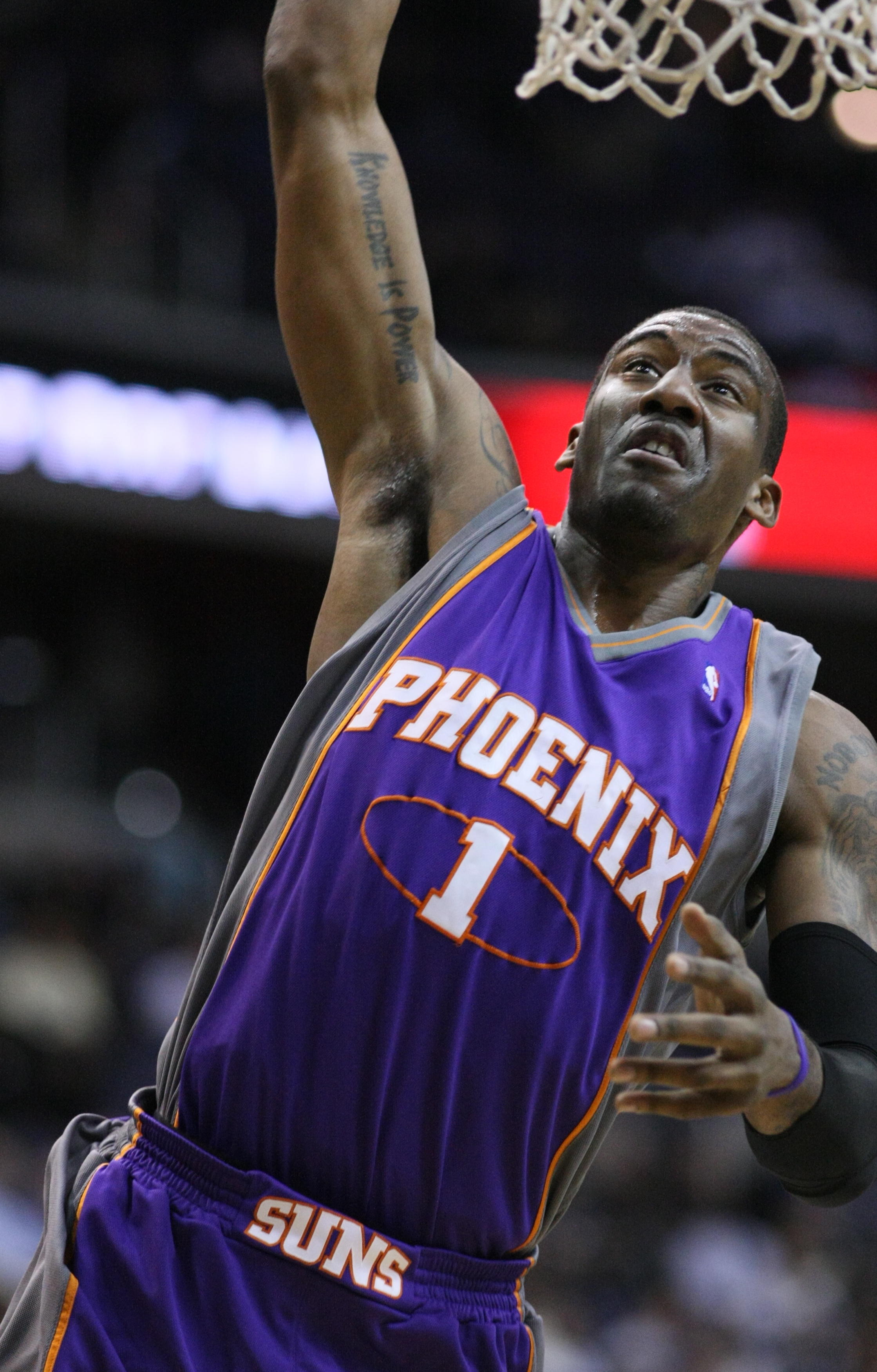 Amare Stoudemire playing with the Phoenix Suns